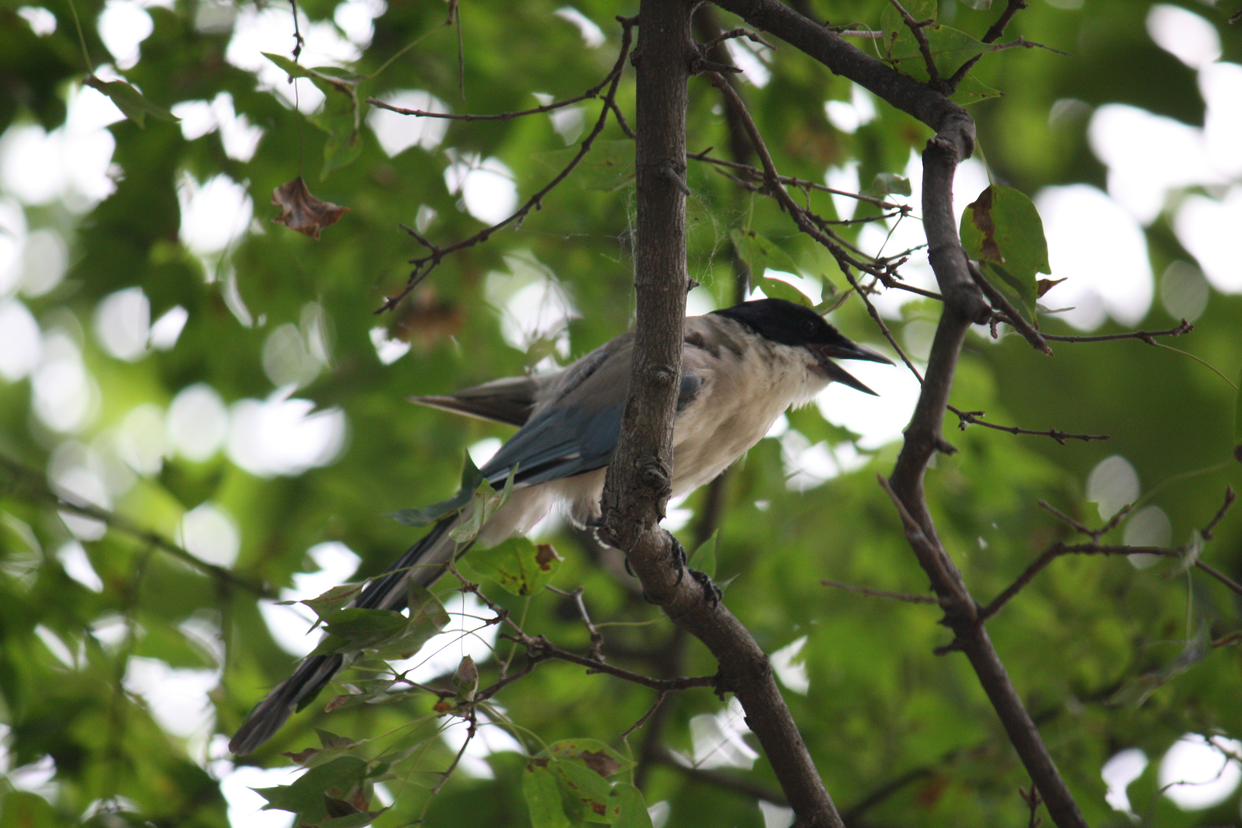 Cyanopica cyanus in Wuhan, China